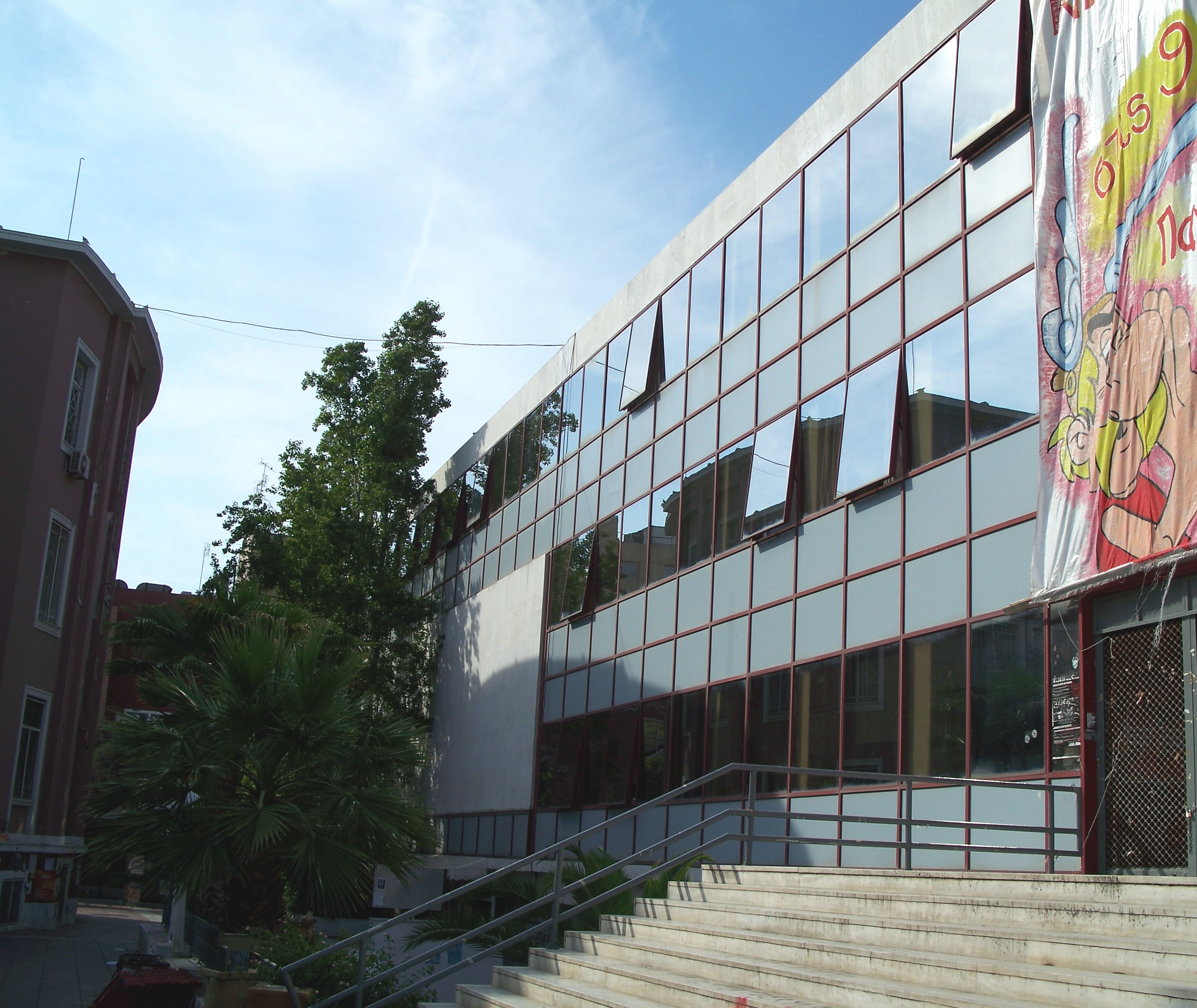 The 80's building of the Panteion University (Πάντειο Πανεπιστήμιο) of Athens. Located at Syggrou ave.